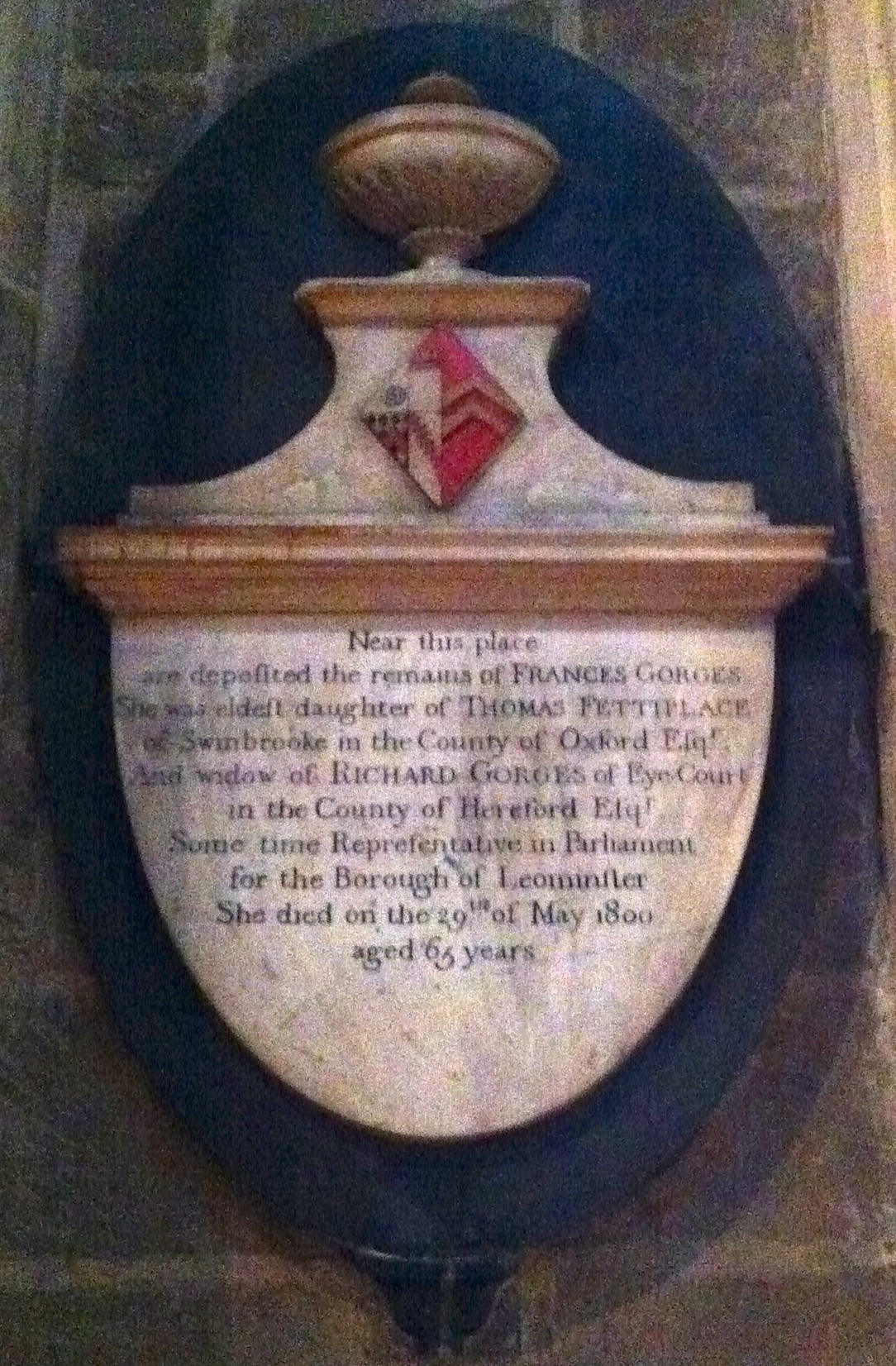 Frances Gorges, eldest daughter of Thomas Fettiplace of Swinbrooke in the County of Oxford, and widow of Richard Gorges of Eye Court in the County of Hereford Esqr. Sometime Representative in Parliament for the Borough of Leominster. She died on 29 May 1800 aged 65. Arms: Gorges (quarterly of 4: 1: Gorges ancient,Argent, a gurges azure; 3: Chichester) impaling Fettiplace.